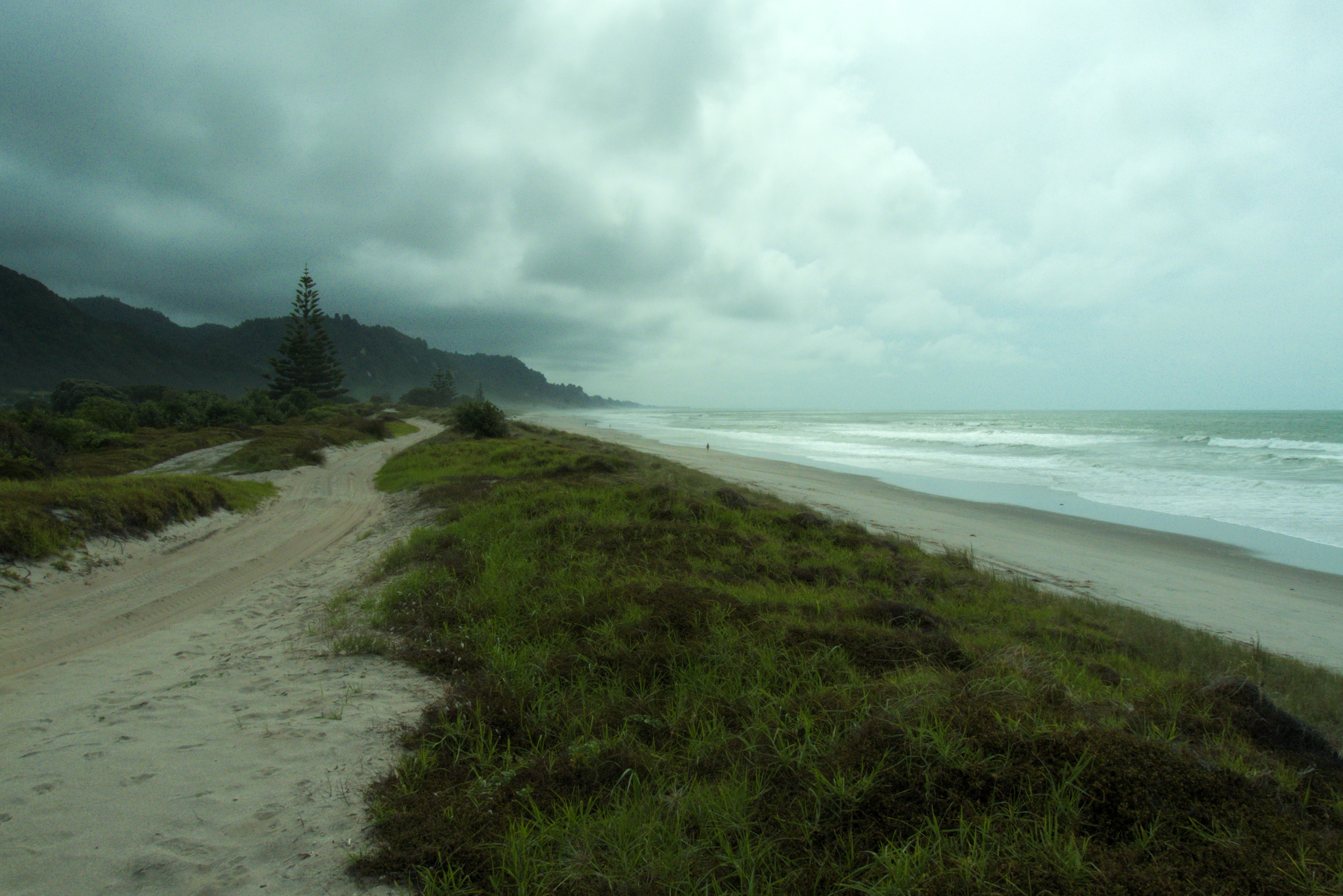 A view of the coastline near the town of Matata, New Zealand. Māori: Matatā, Aotearoa.